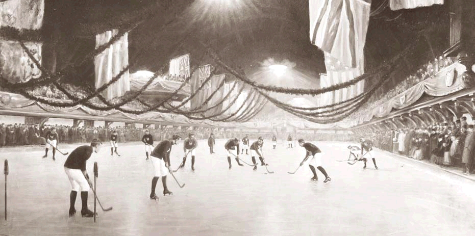 Composite photo of 1893 hockey game at the Victoria Skating Rink in Montreal; photo in collection of McCord Museum